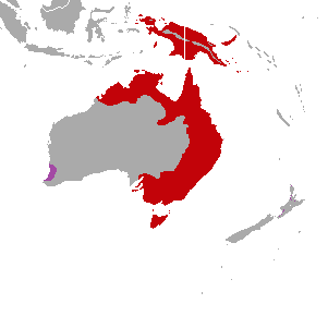 Cacatua galerita range map